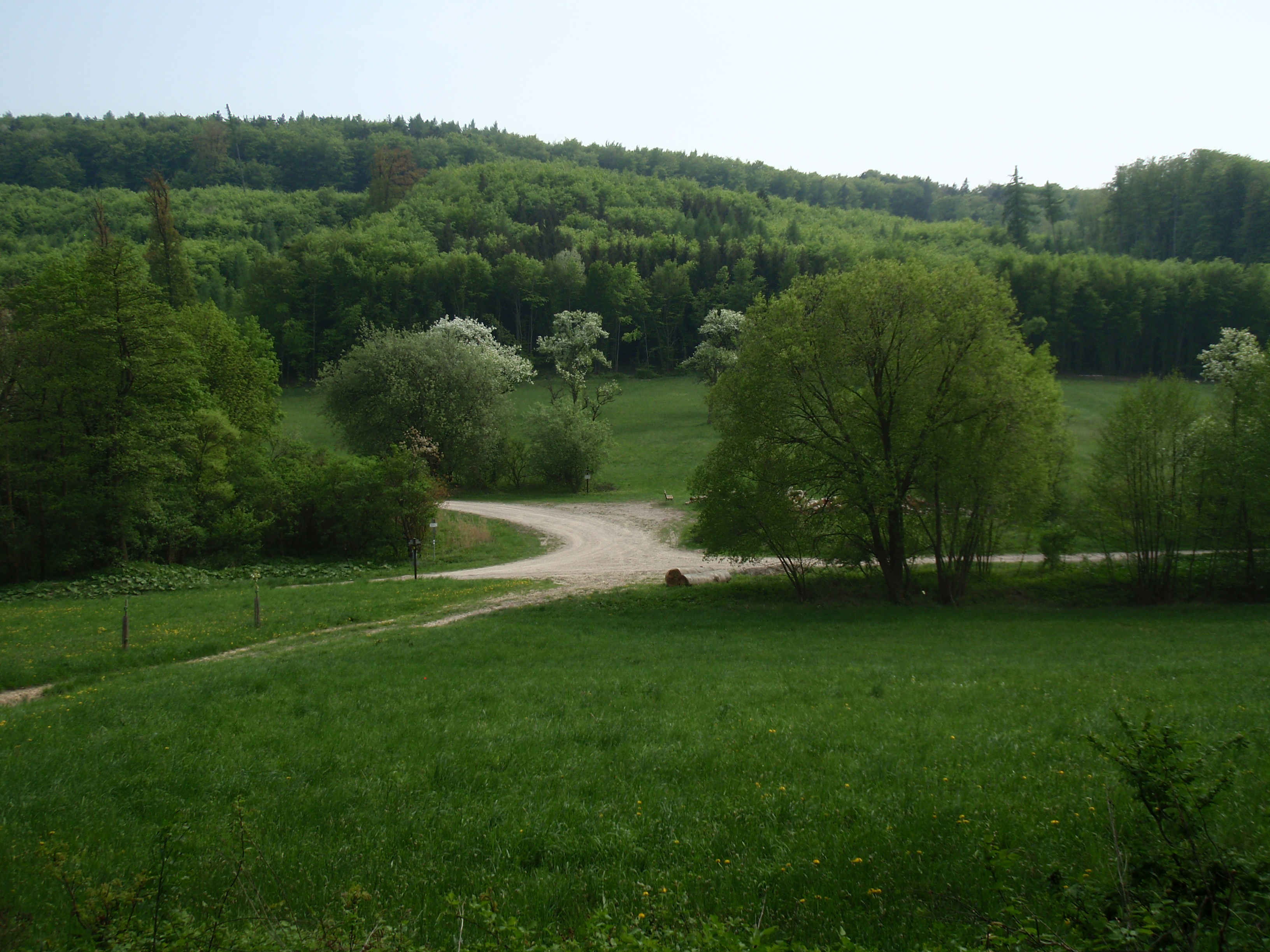 View from Roman tumuli to the "Roman Star" in the South, a crossover on the "Cultura Trail Römerweg". To the right starts the Finsterleiten-Street to Eichgraben.